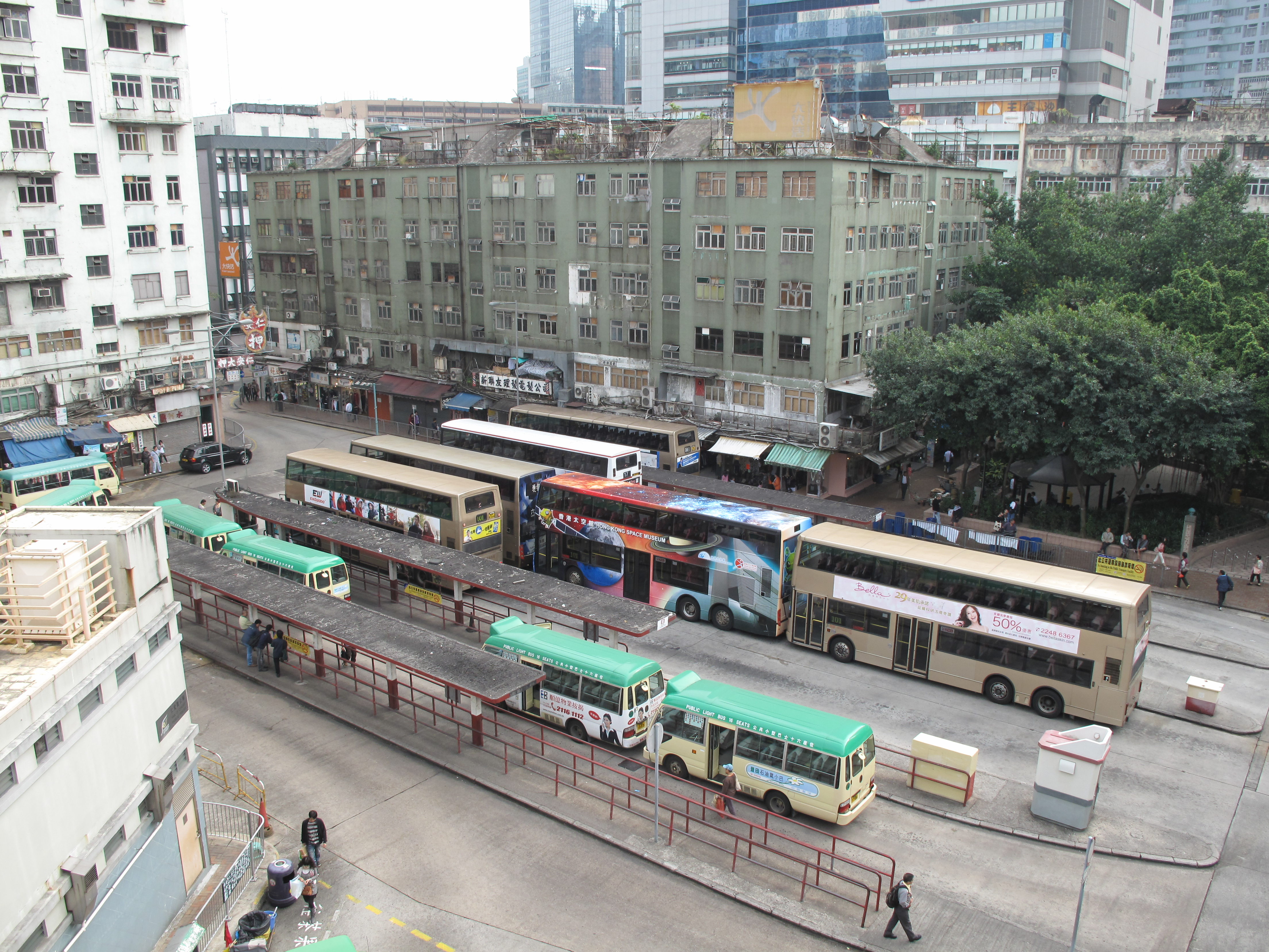 Yan Oi Court Public Transport Interchange, Kwun Tong